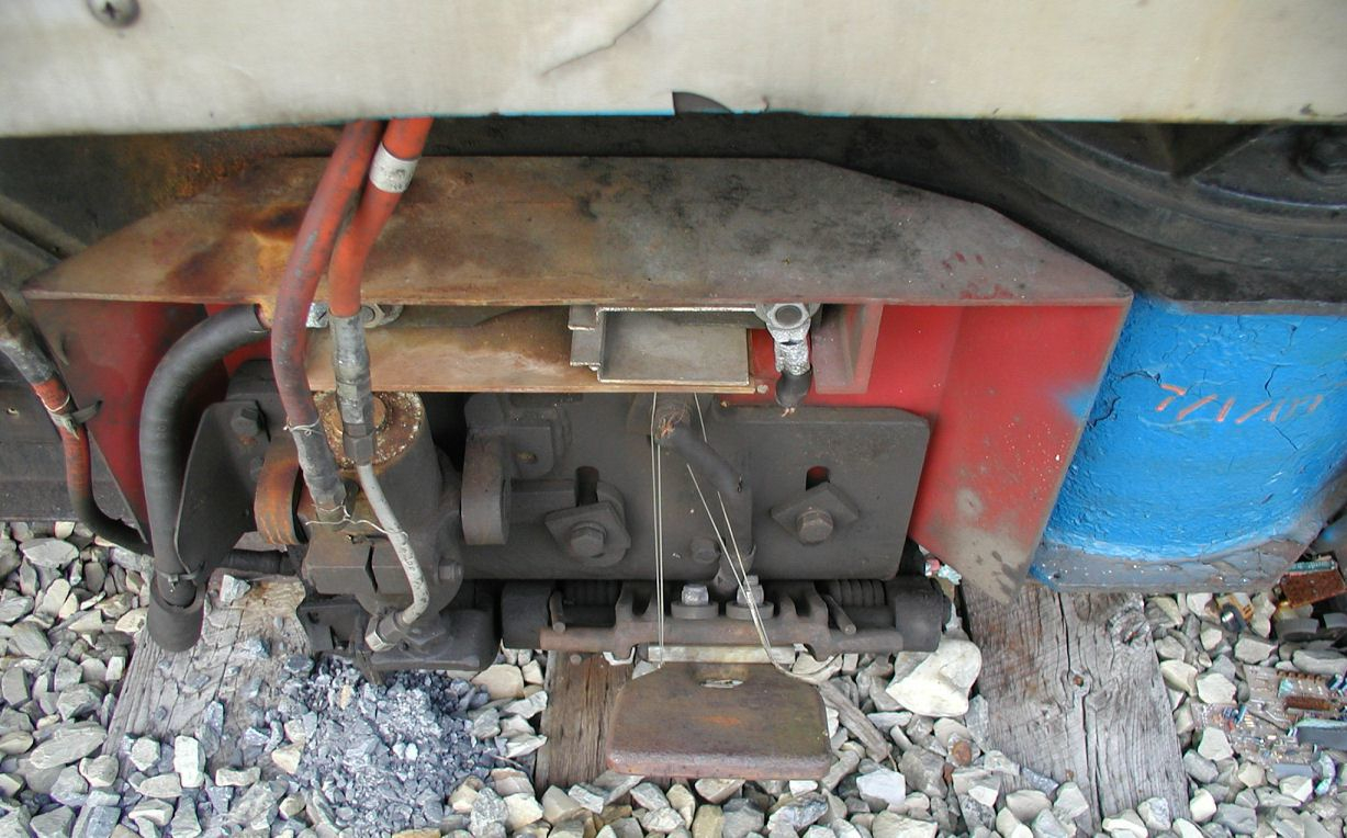 Third rail shoe installed on the front truck of an RTL II car for operation into Penn Station. Part of Amtrak Turboliner #2139 taken at Super Steel plant in Schenectady.